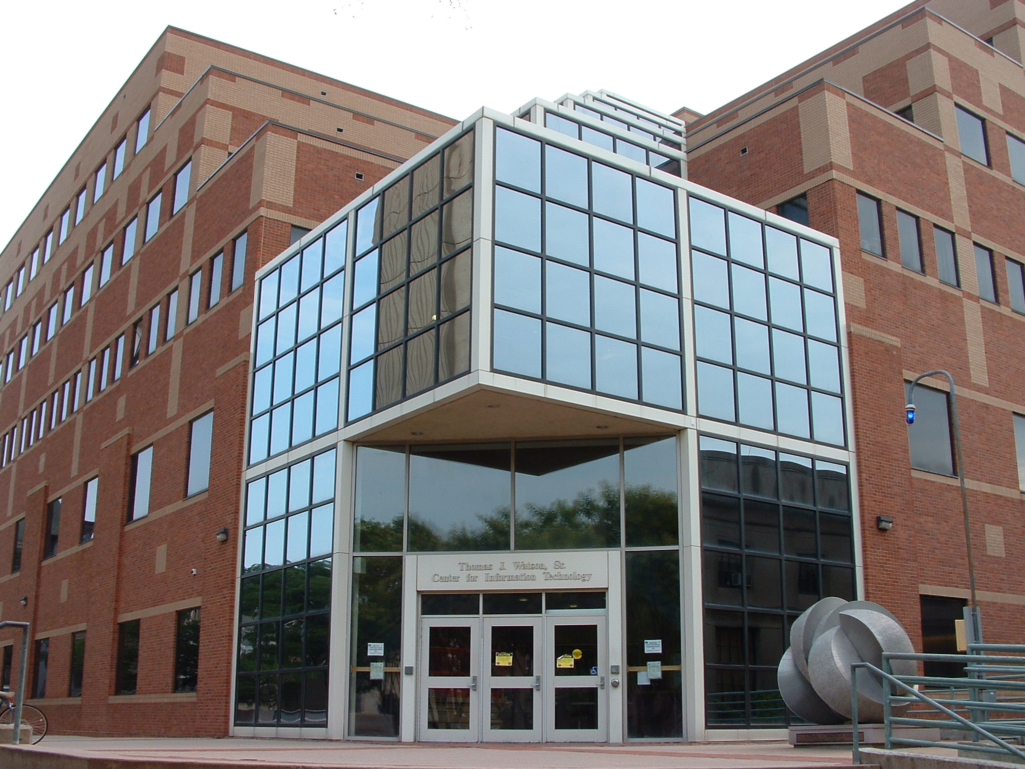 Brown University - Watson CIT